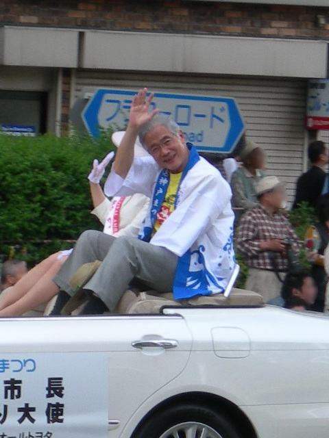 Mayor of Osaka City, Kunio Hiramastu. from 40th "Kobe Matsuri" (Close-up Version).